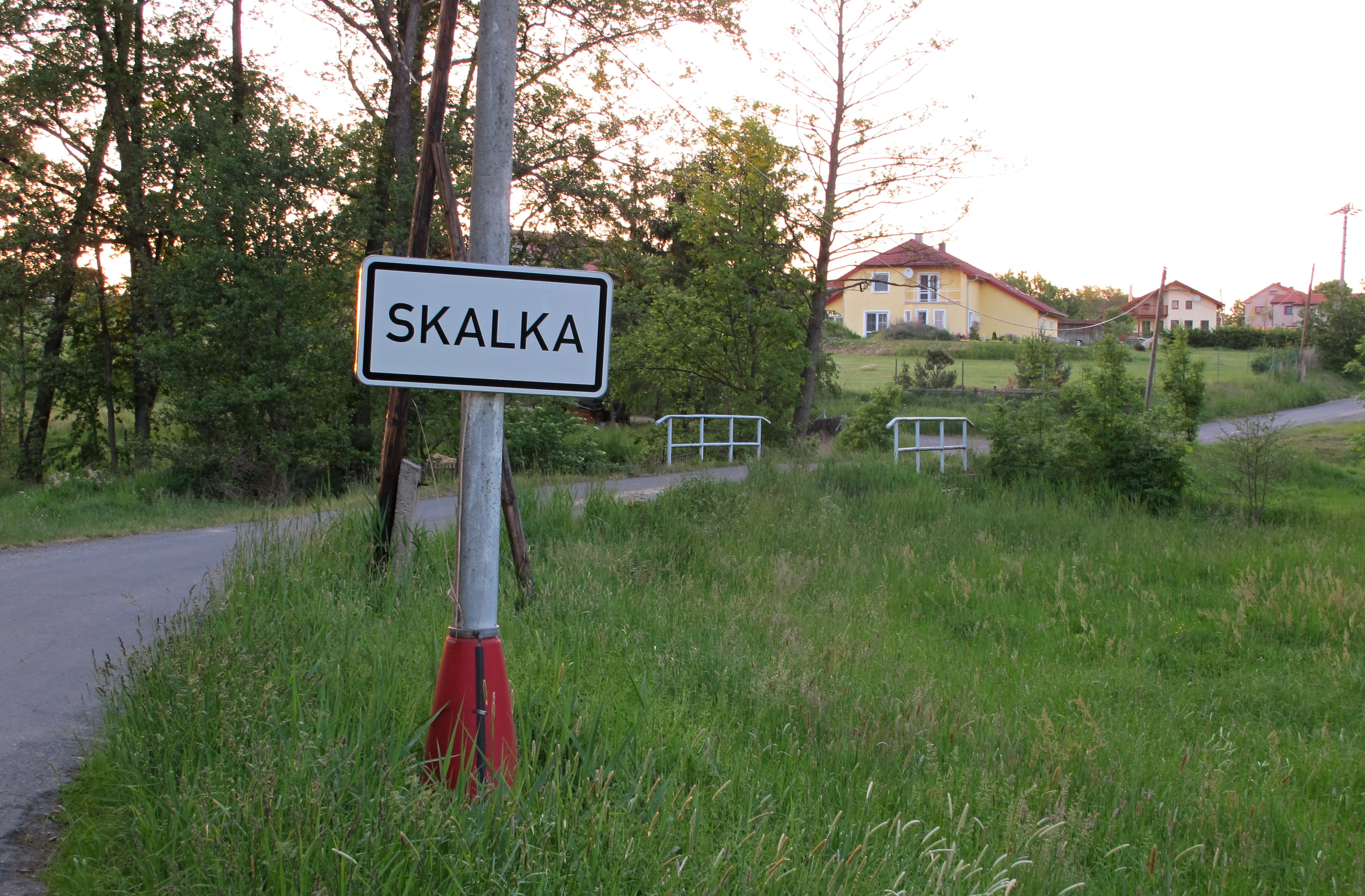 Skalka - part of the Drásov in Příbram District (Czech Republic)